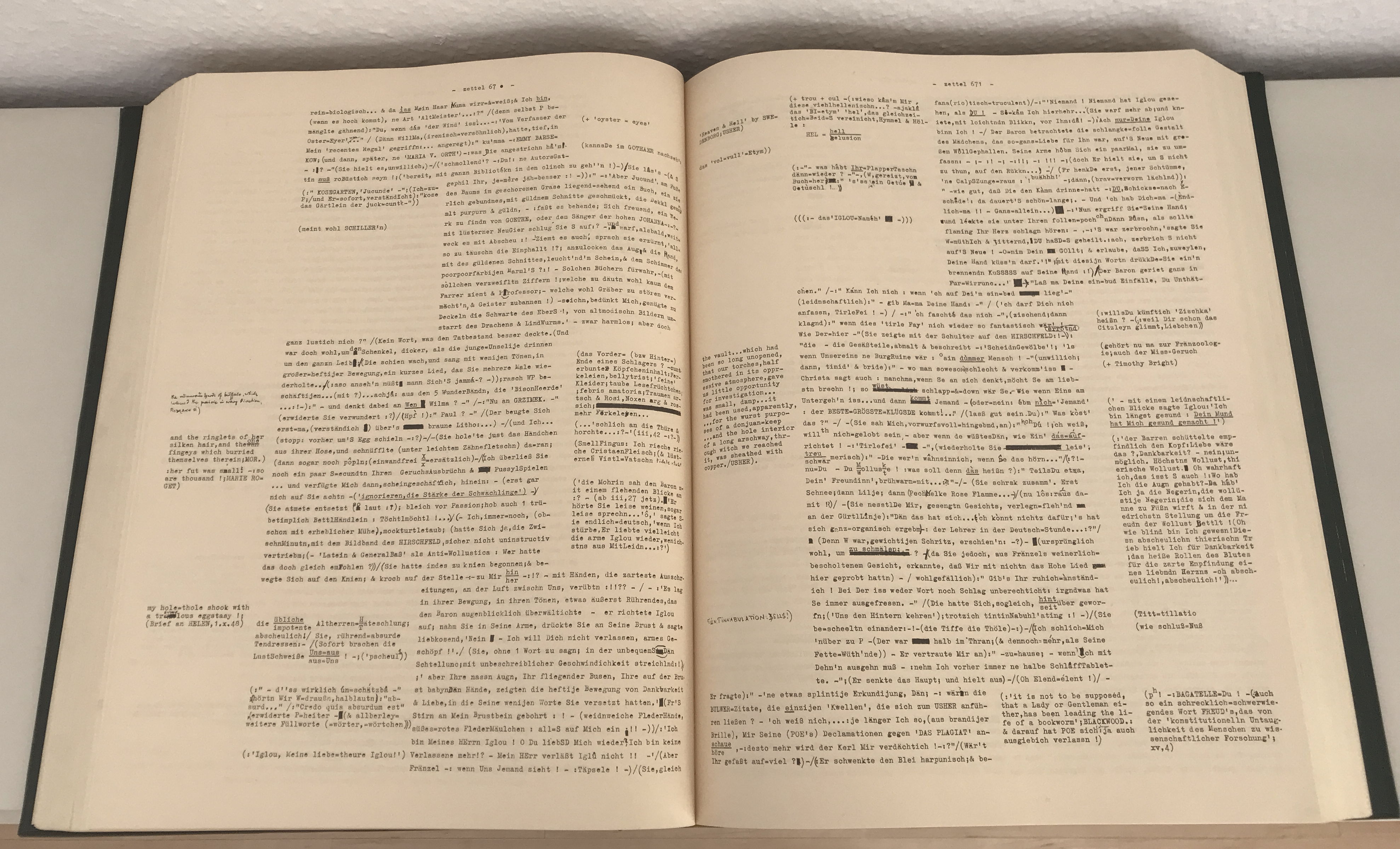 Zettels Traum by Arno Schmidt, sample double page